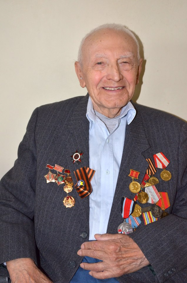 Semen Moiseevich Rosenfeld (Israel, 2016)